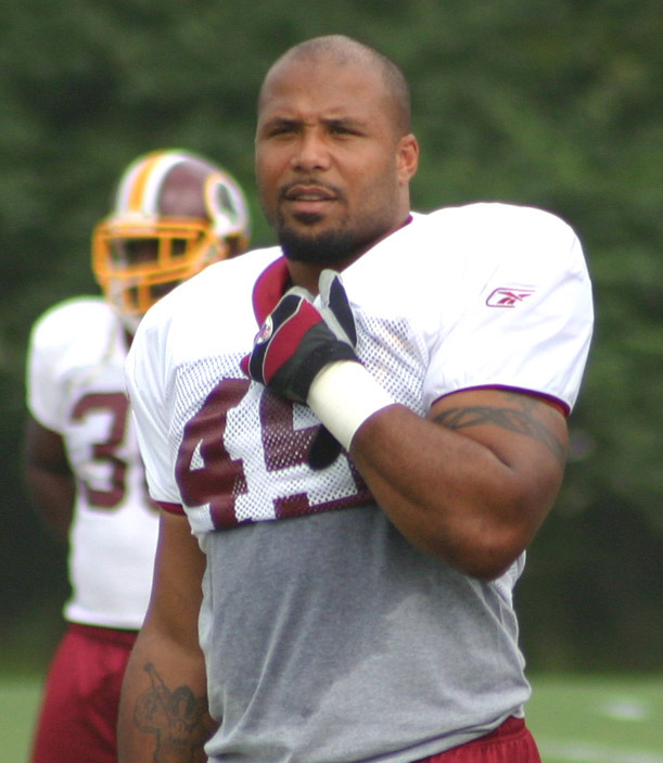 Michael Sellers, professional football player, at training camp for the Washington Redskins.